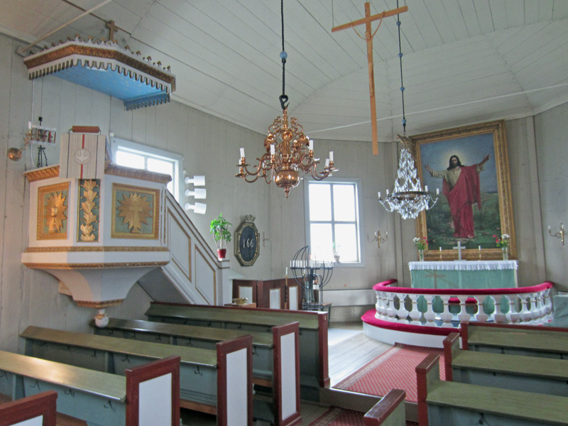 Pulpit and altar at St Andreas church in Lumparland, Åland, Finland